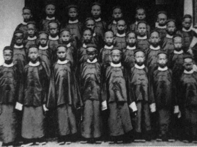 Study-abroad students of Qing Dynasty